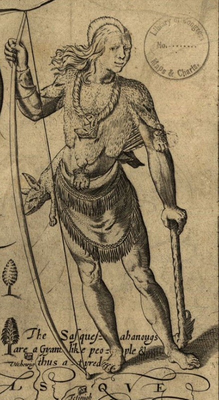 This image of a Susquehannock was extracted from the 1624 Smith Map